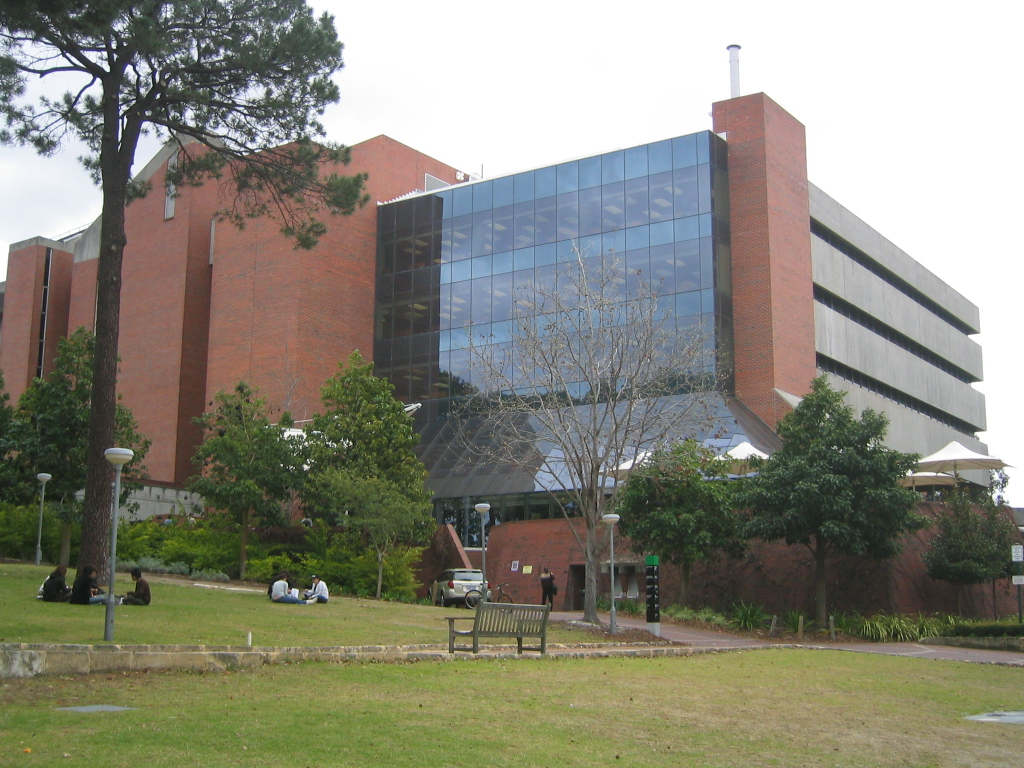 Curtin T.L. Robertson Library in Curtin University Bentley campus